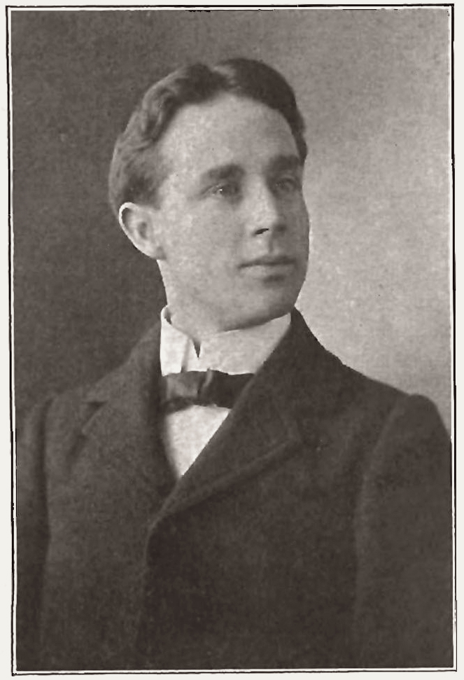 Portrait of recording pioneer Albert Campbell